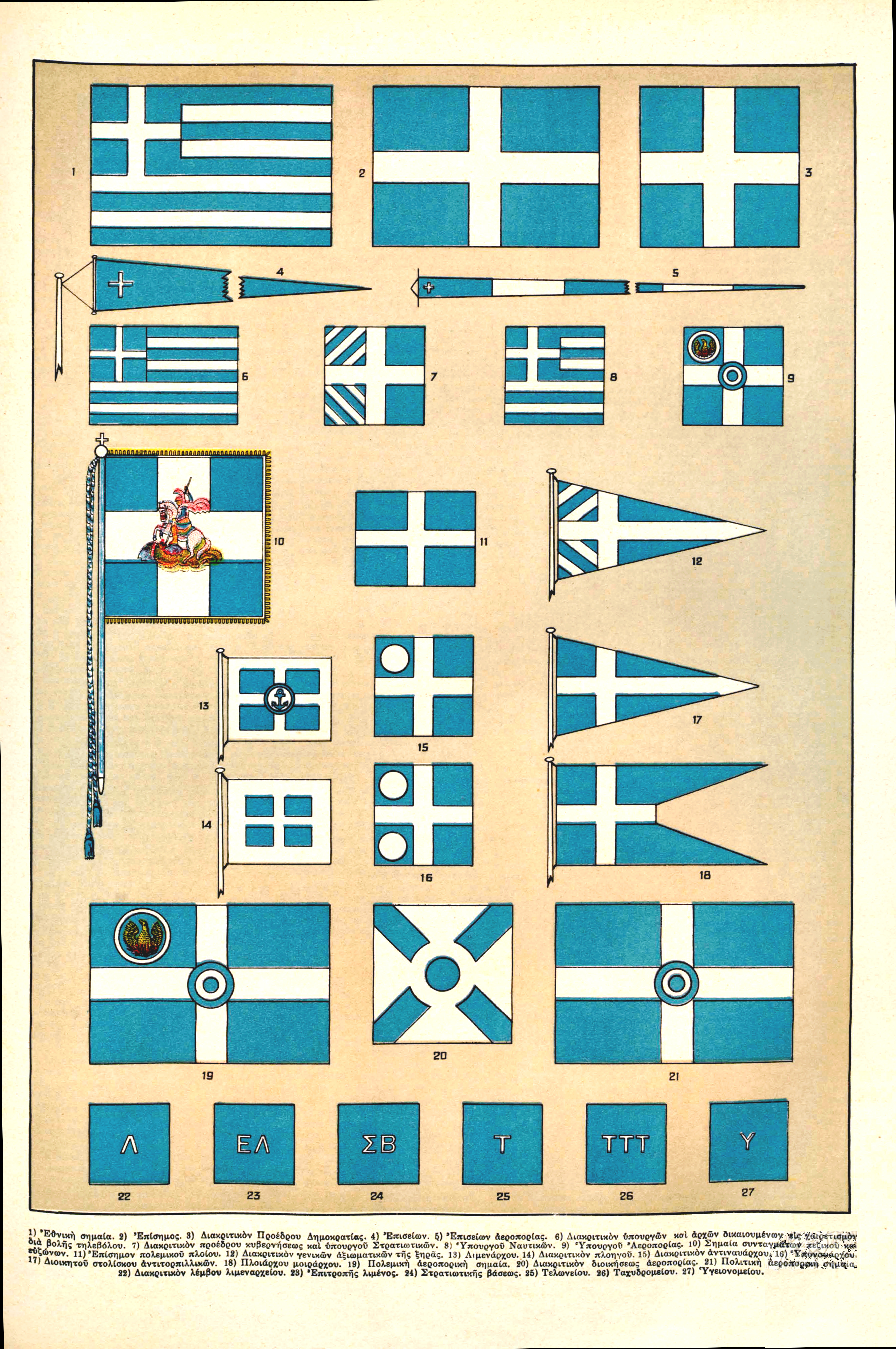 Administrative flags of Greece, Megale Ellenike Egkyklopaideia